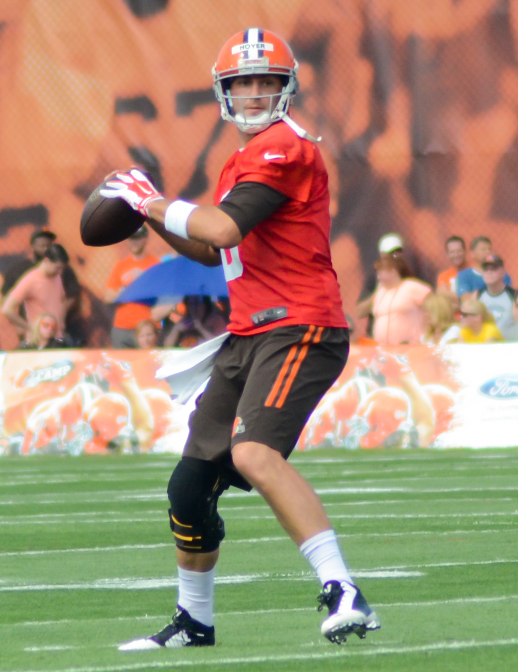 Brian Hoyer at 2014 Browns training camp.